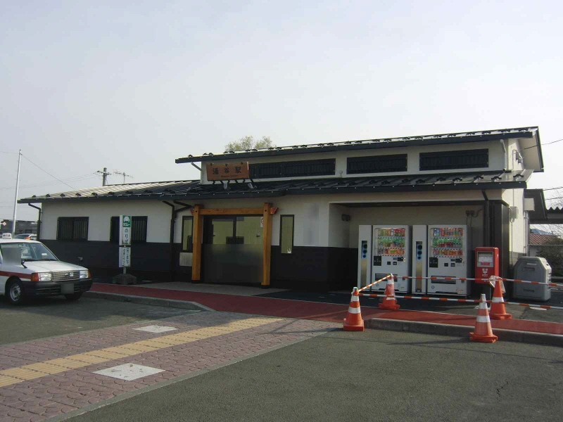 涌谷駅駅舎の写真です。